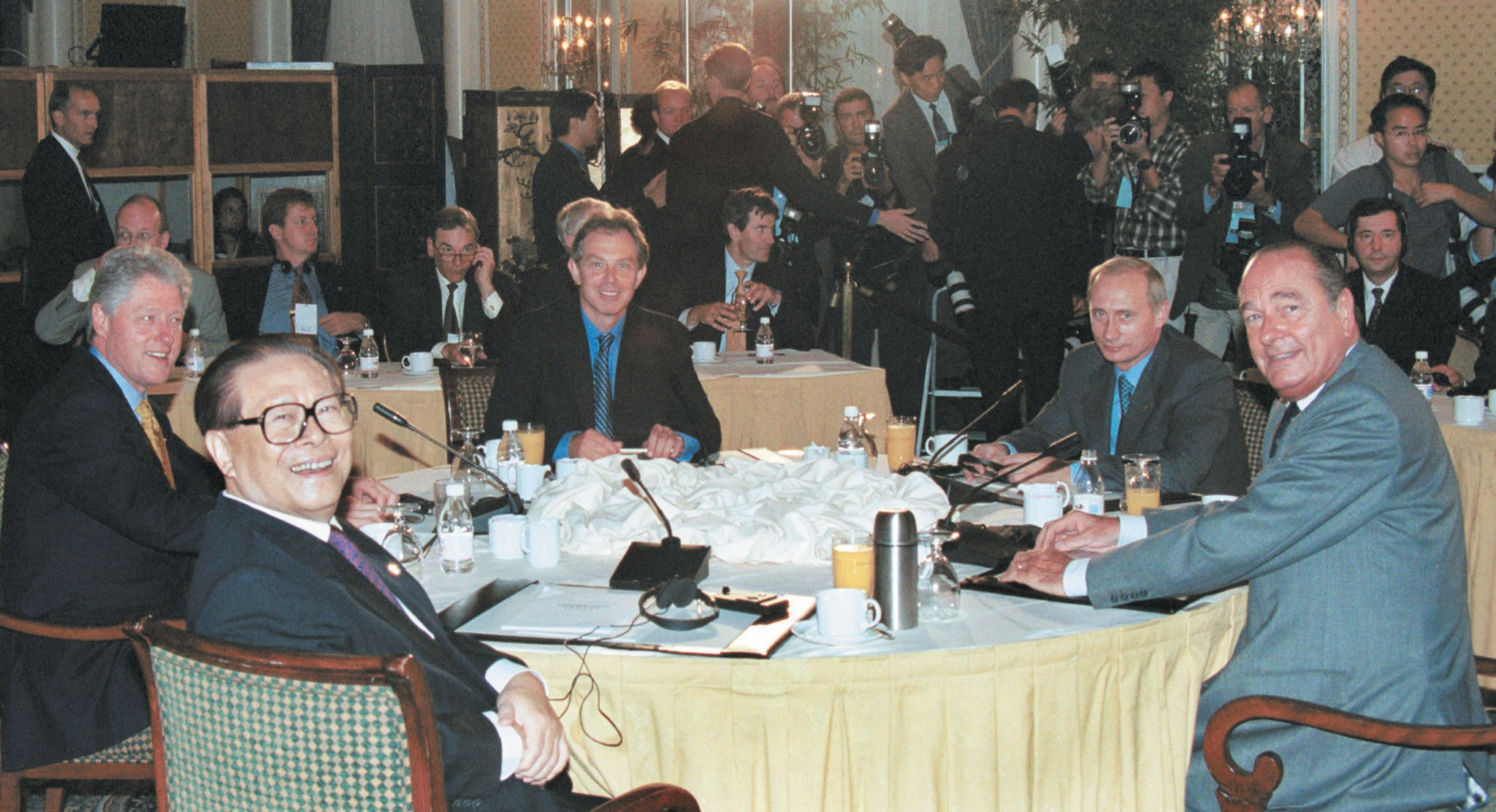 NEW YORK, THE US. A meeting of the five permanent members of the UN Security Council.